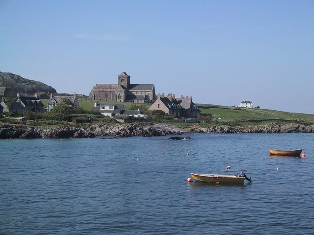 The Abbey, Iona